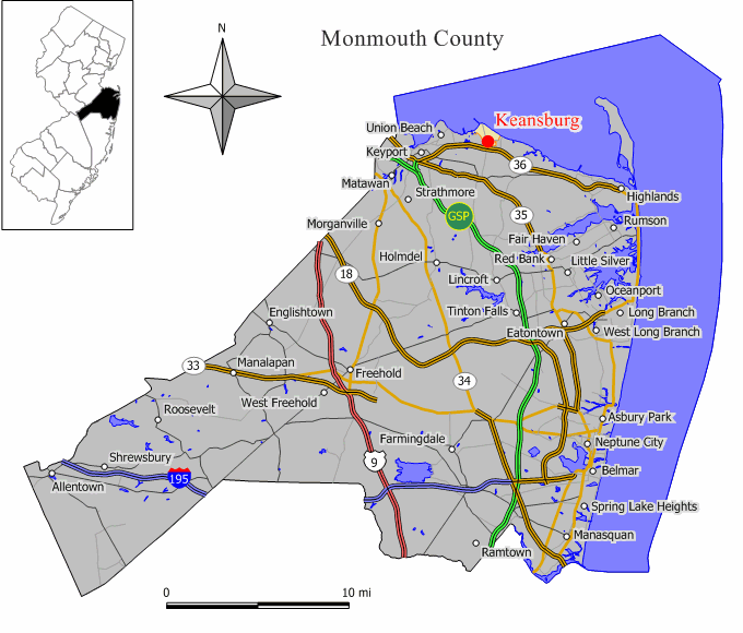 Source: Jim Irwin